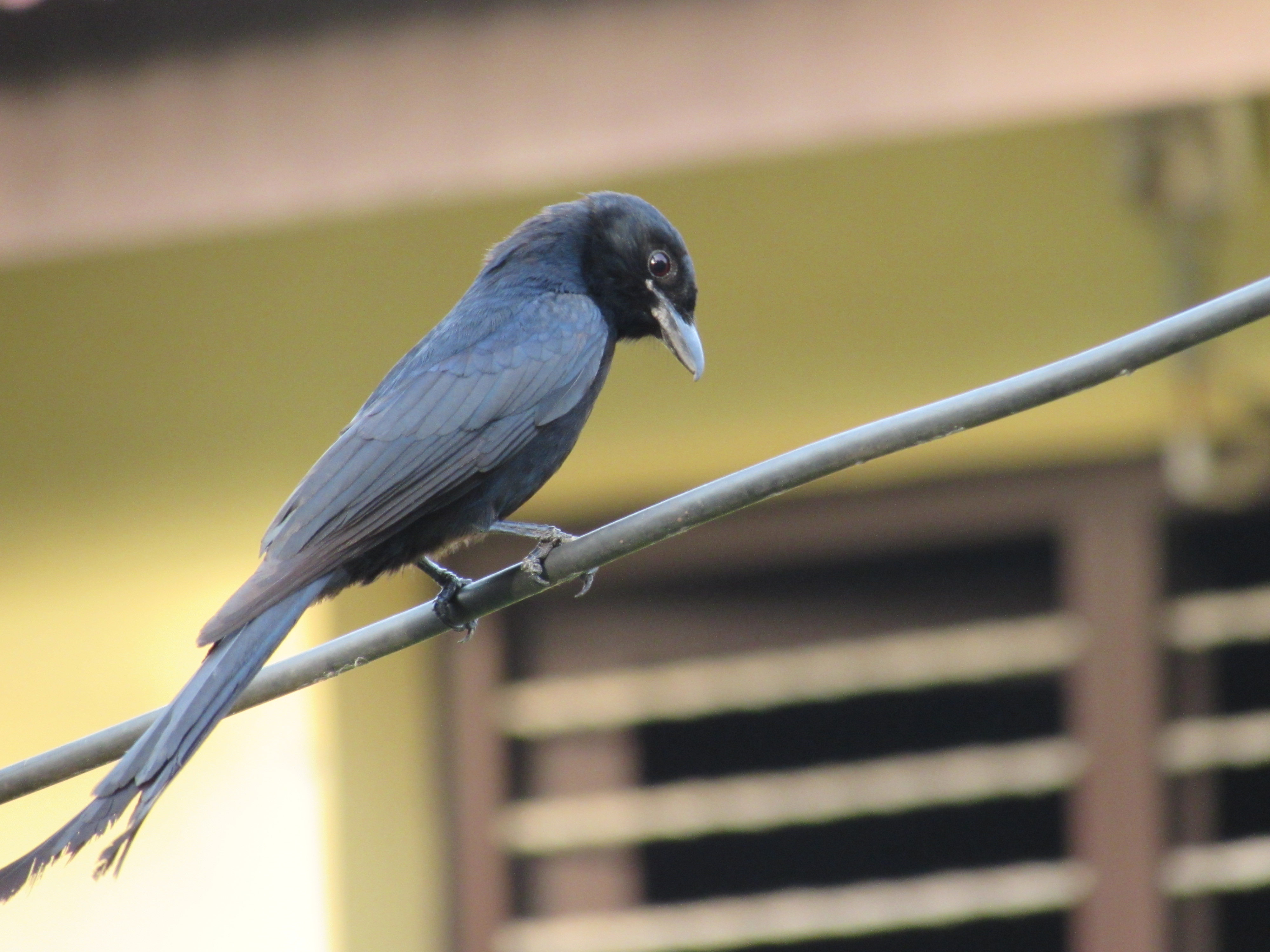 Black Drongo Dicrurus macrocercus on a typical wire. नेपाली: बिजुलीको तारमा बसिरहेको कालो चिबे मैथिली: बिजली के तार में बैठल बुलबुल